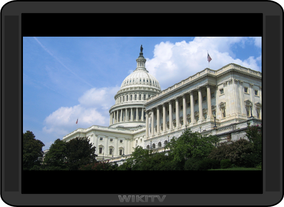 Aspect Ratio 16:9 letterbox